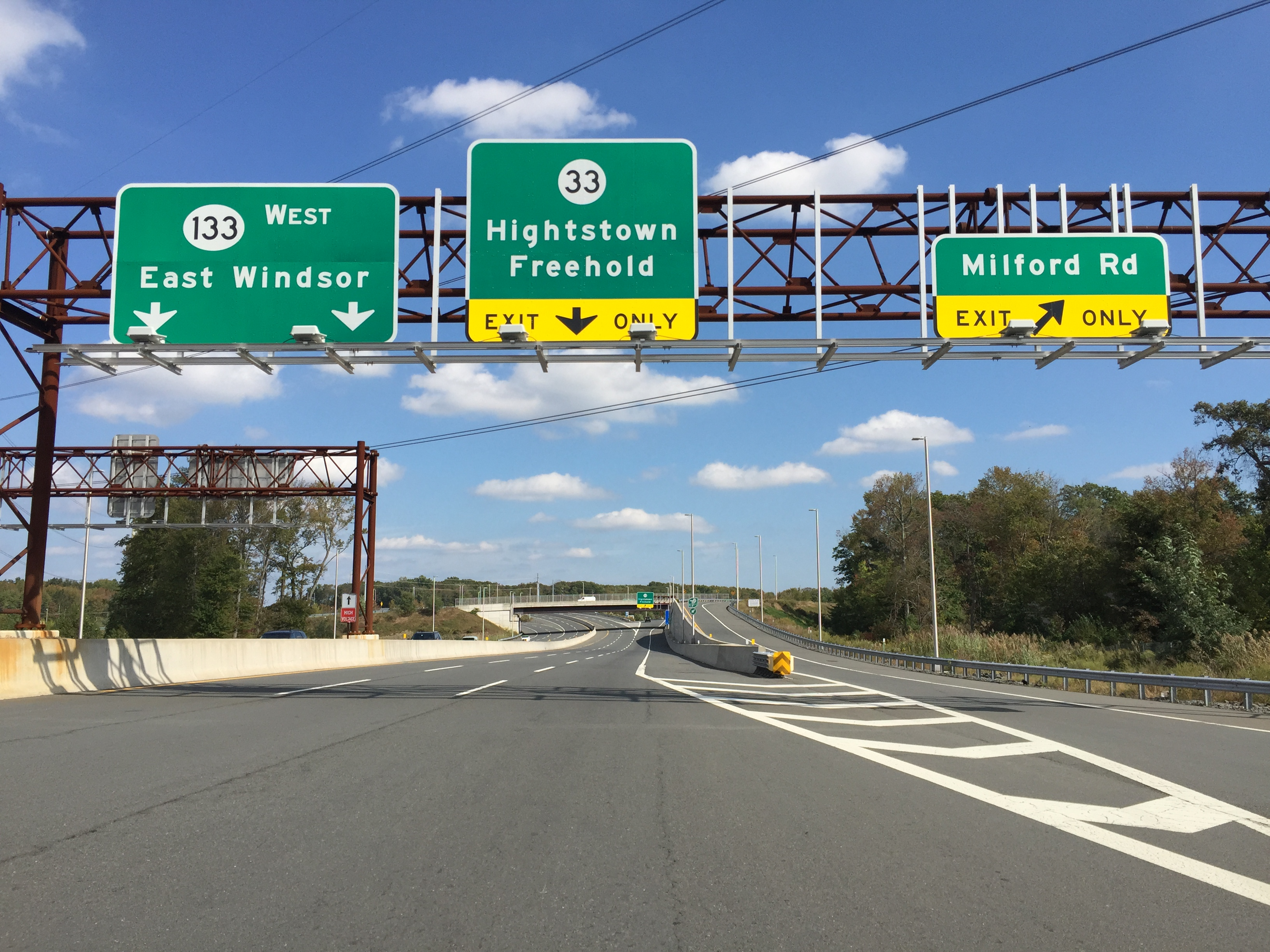 View west along New Jersey State Route 133 (Hightstown Bypass) at the exit for Milford Road in East Windsor Township, Mercer County, New Jersey